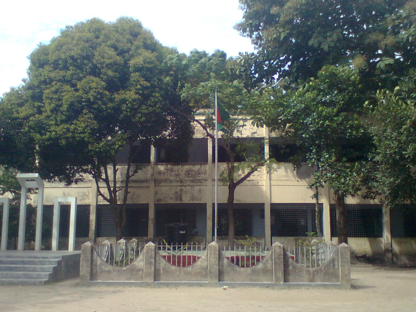 SGHS satkhira govt. high school flag stand satkhira, amtala, katia, bangladesh